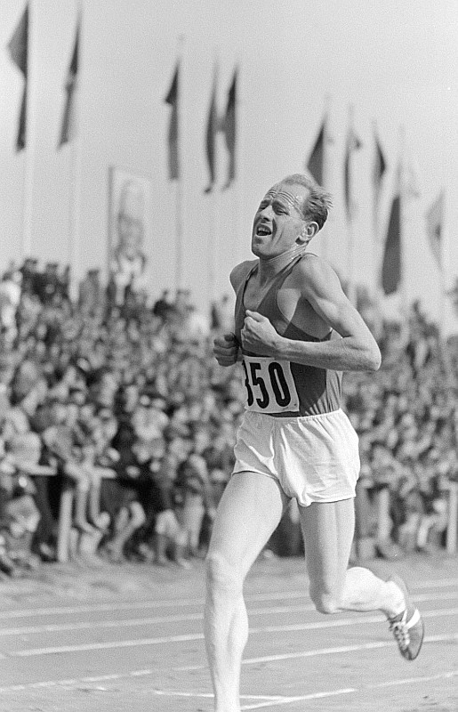 Original image description from the Deutsche Fotothek Emil Zátopek